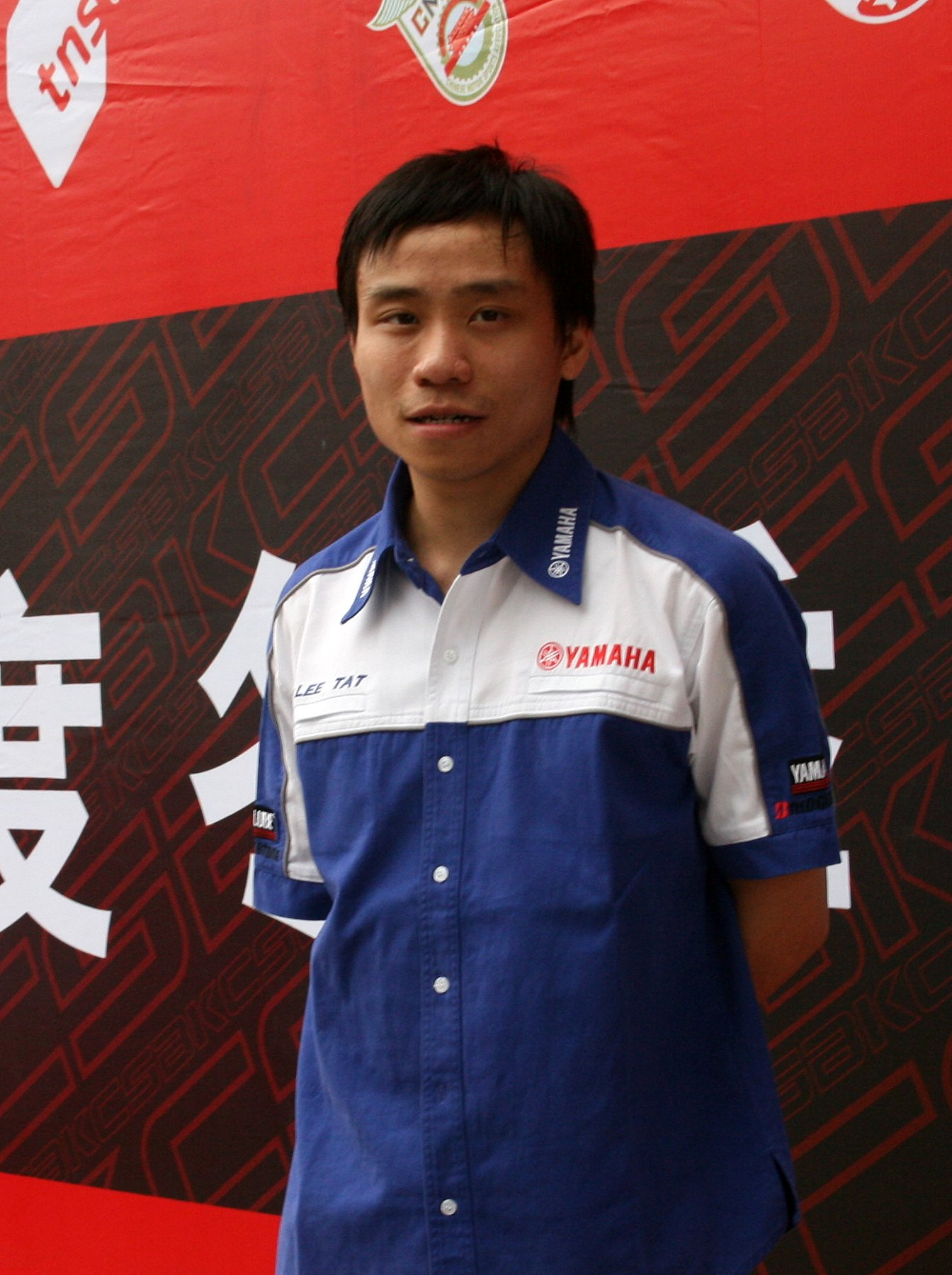 Hong Kong motorcycle racer Cheung Wai On in 2010.中文（香港）: 2010年時的香港摩托車手張煒安